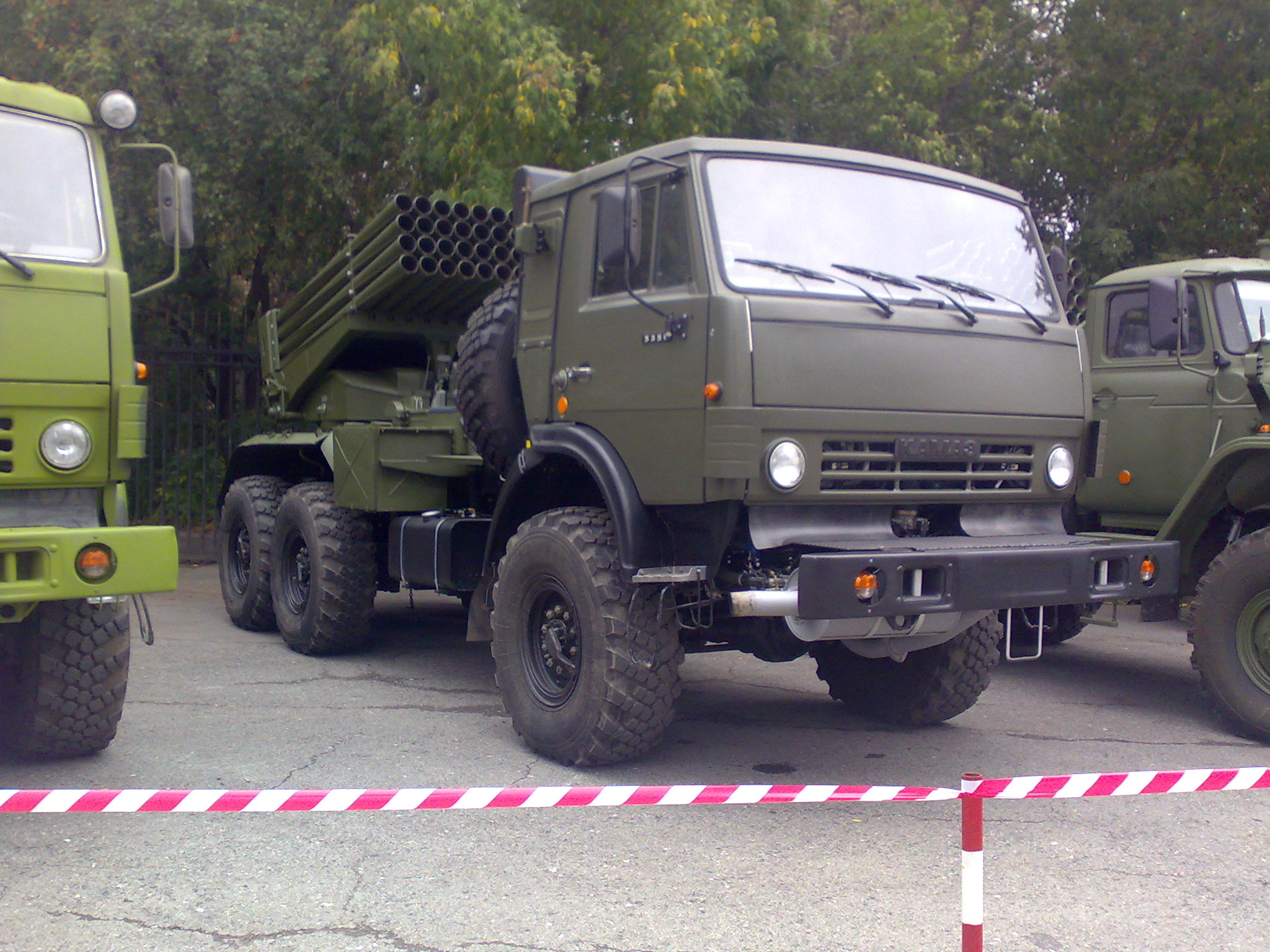 122mm BM-21 Grad (2B26) on KamAZ-5350 chassis